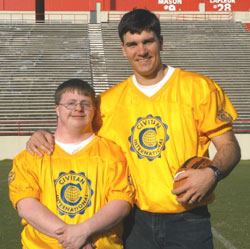 Image of Jake Delhomme taken as part of a public relations campaign for the nonprofit group Civitan International.